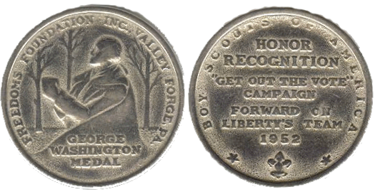 George Washington Honor Medal, Freedoms Foundation at Valley Forge, Valley Forge for the Boy Scouts of America